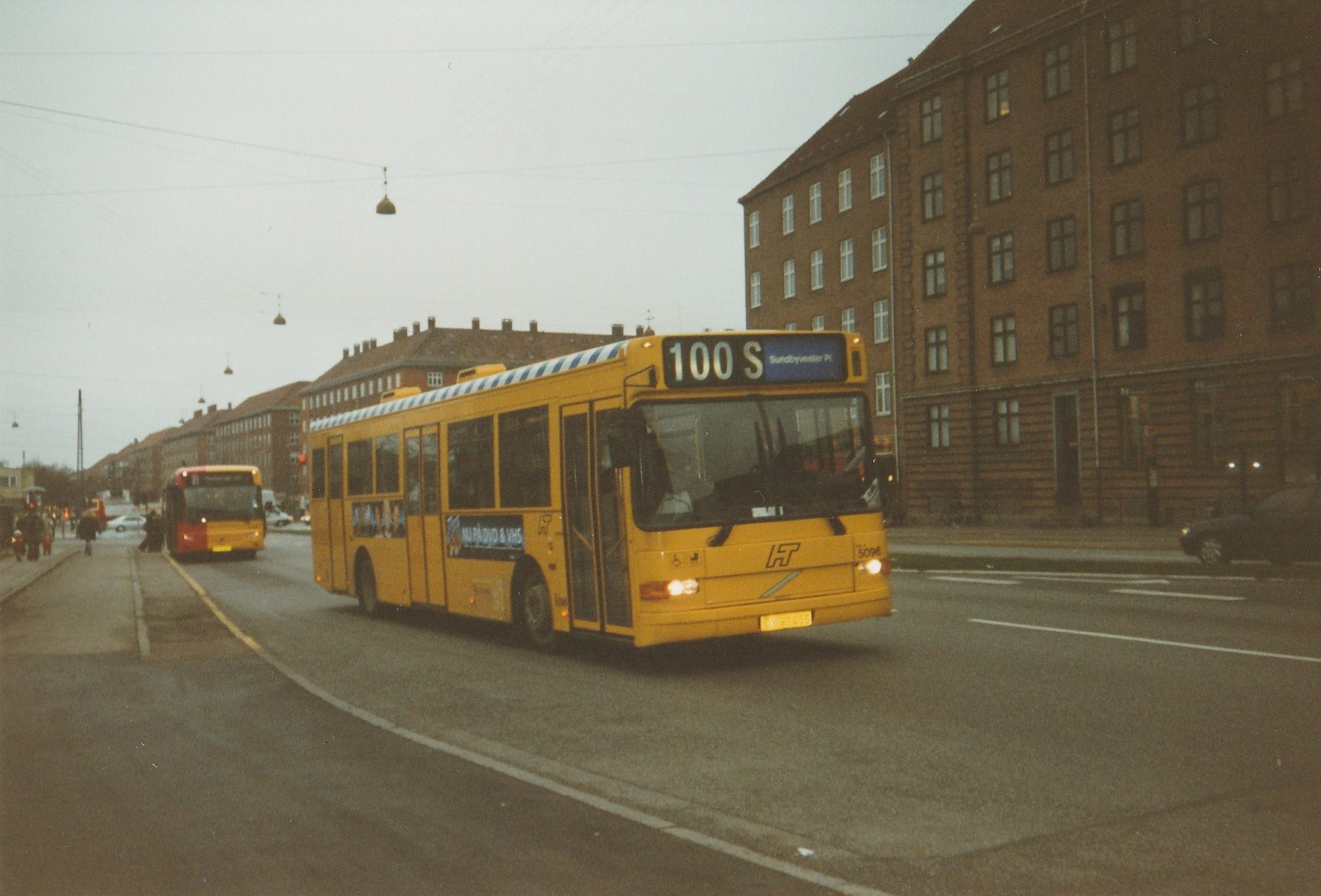 Connex bus 5096 as HT bus line 100S and City-trafik 2738 as line 1A at Toftegårds Plads in Valby in Copenhagen.